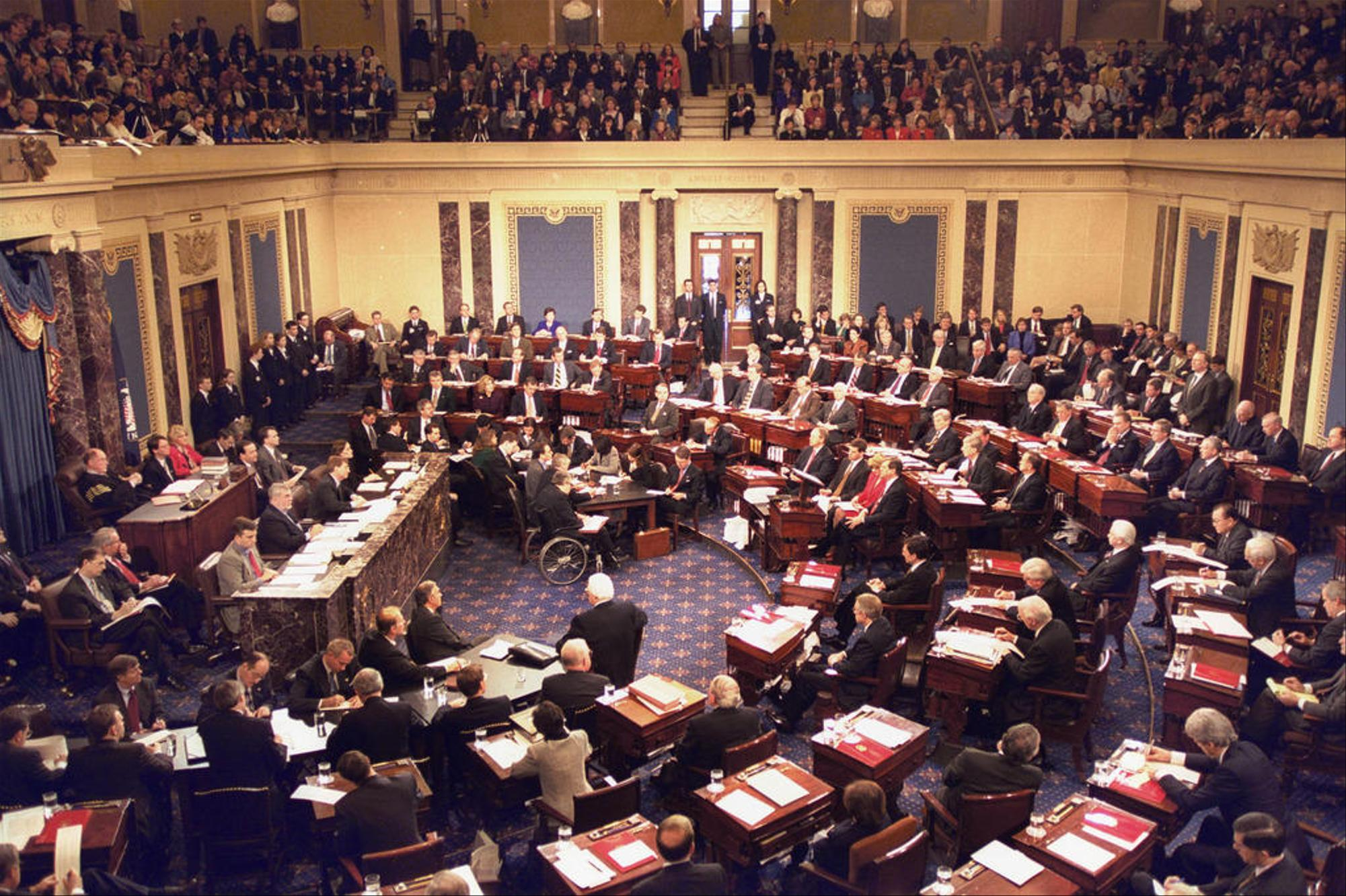 Floor proceedings of the U.S. Senate, in session during the impeachment trial of Bill Clinton.